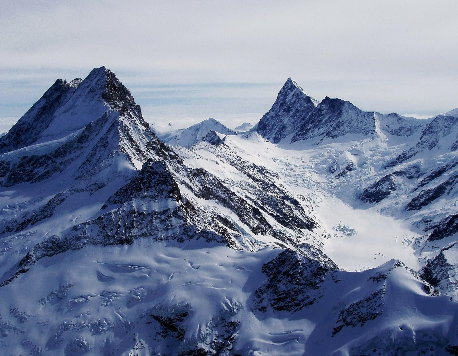 Aerial view of the Bernese Alps. From left to right the summits visible on the photo are the Schreckhorn (4080m) and the Finsteraarhorn (4270m). The glacier between them is the Unter grindelwaldgletcher.